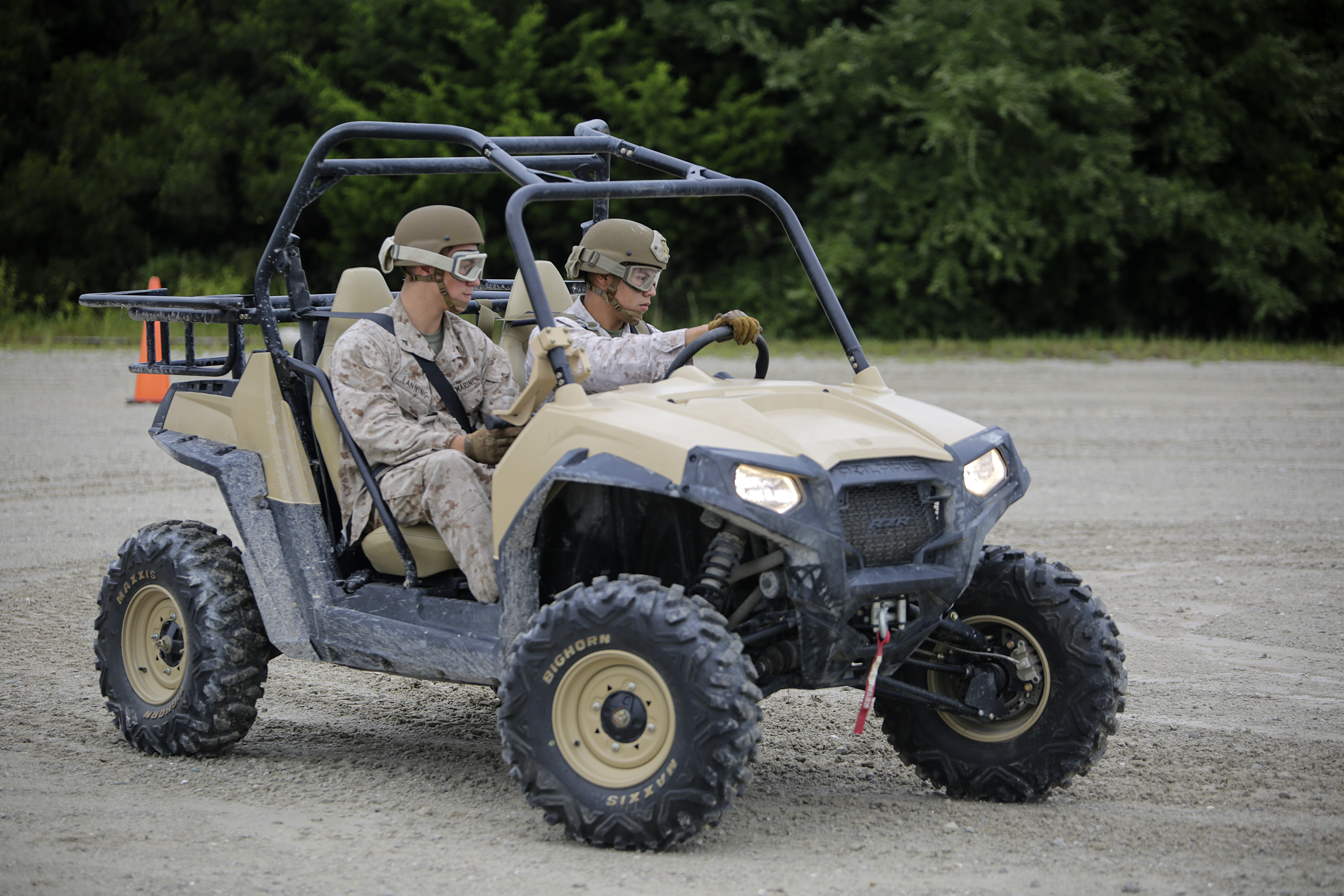 Sgt. Sebastian Vasquez, a radio operator with Alpha Company, 2nd Reconnaissance Battalion drives a Polaris Razor during a basic recreational off-highway vehicle training qualification course at Mile Hammock Bay on Camp Lejeune, N.C., Sept. 1, 2015. The course is designed to introduce Marines to the two-seater all-terrain vehicle, and familiarize them to its capabilities and safety consideration. (U.S. Marine Corps photo by Cpl. Alexander Mitchell/released) Unit: II Marine Expeditionary Force